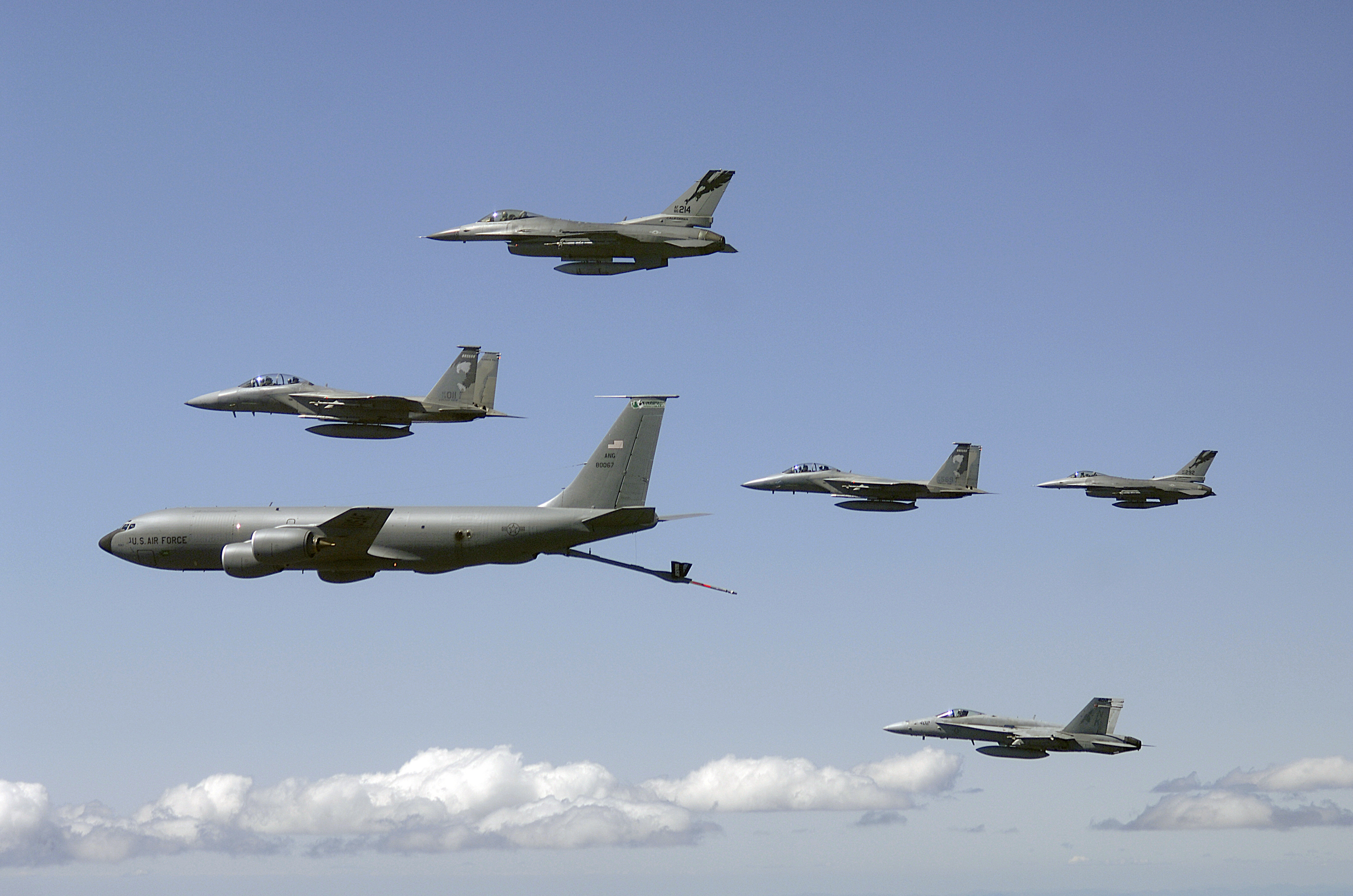 A U.S. Air Force Boeing KC-135R Stratotanker (s/n 58-0067) from the 116th Air Refueling Squadron, 141st Air Refueling Wing, Washington Air National Guard refuels several aircraft in 2007: two McDonnell Douglas F-15D Eagle (s/n 79-0011, 78-0569) from the 114th Fighter Squadron, 173rd Fighter Wing, Oregon Air National Guard; two General Dynamics F-16C Fighting Falcon (s/n 86-1214, 84-1292) from the 194th Fighter Squadron, 144th Fighter Wing, California Air National Guard; and a U.S. Navy McDonnell Douglas F/A-18C Hornet from strike fighter squadron VFA-25 Fist of the Fleet, assigned to Carrier Air Wing 14 (CVW-14) aboard the aircraft carrier USS Ronald Reagan (CVN-76).